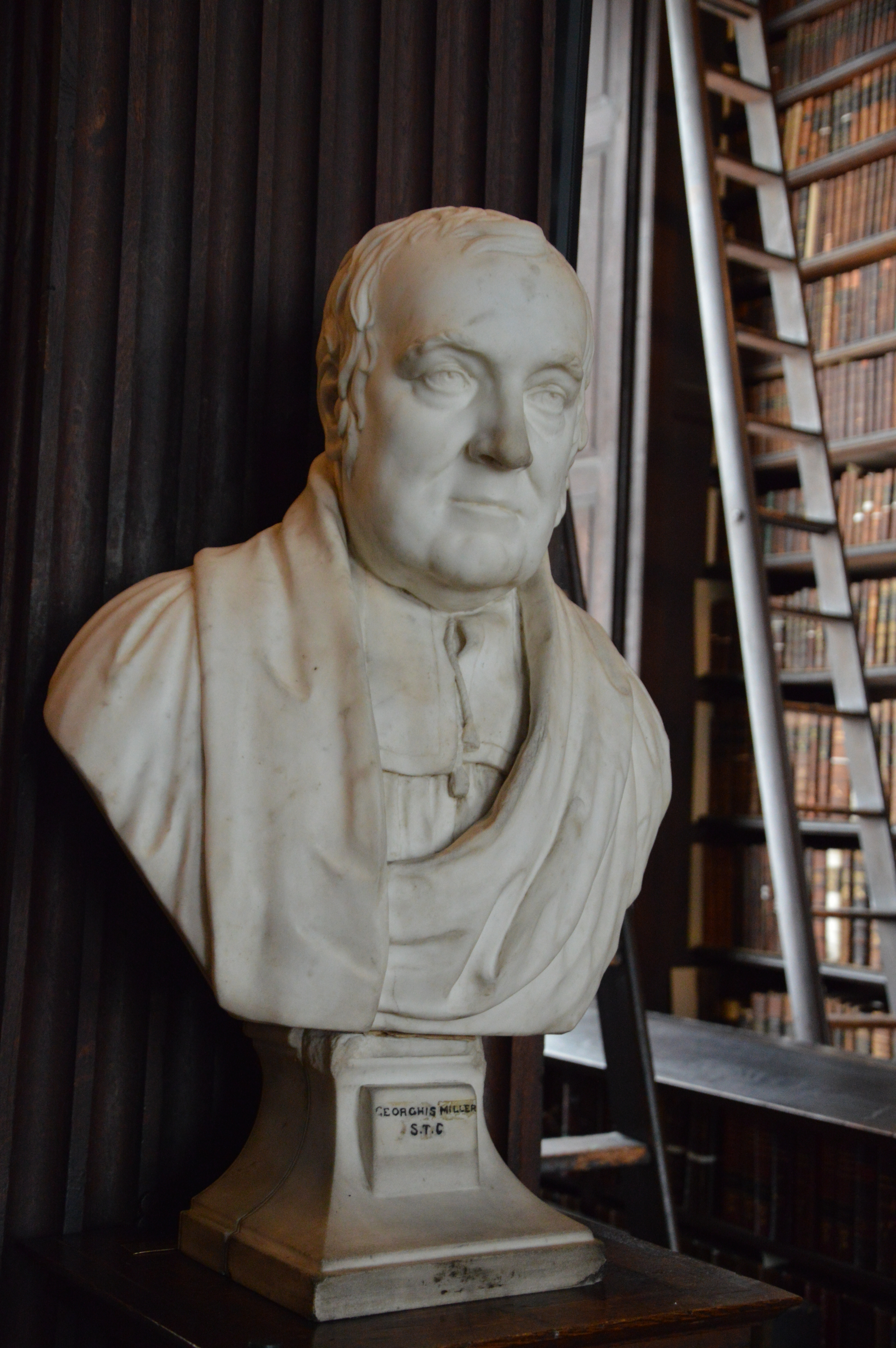 Thomas Kirk's bust of George Miller in the Long Room of the Old Library, Trinity College, Dublin.